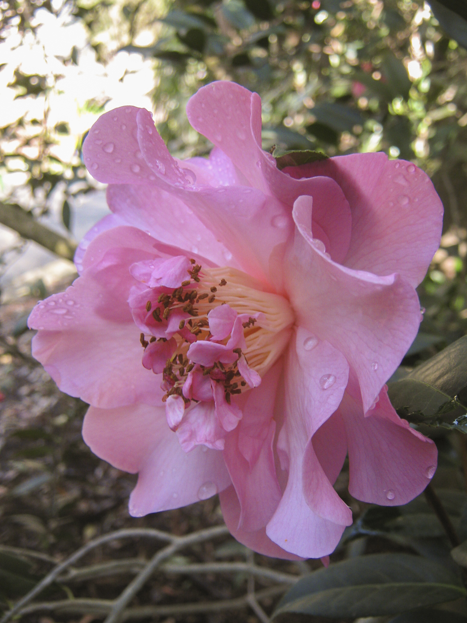 Camellia X williamsii 'Lady Gowrie' by Waterhouse 1951; photographed in the Royal Botanic Gardens, Melbourne